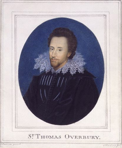 Oil portrait of Sir Thomas Overbury (1581-1613) by Sylvester Harding